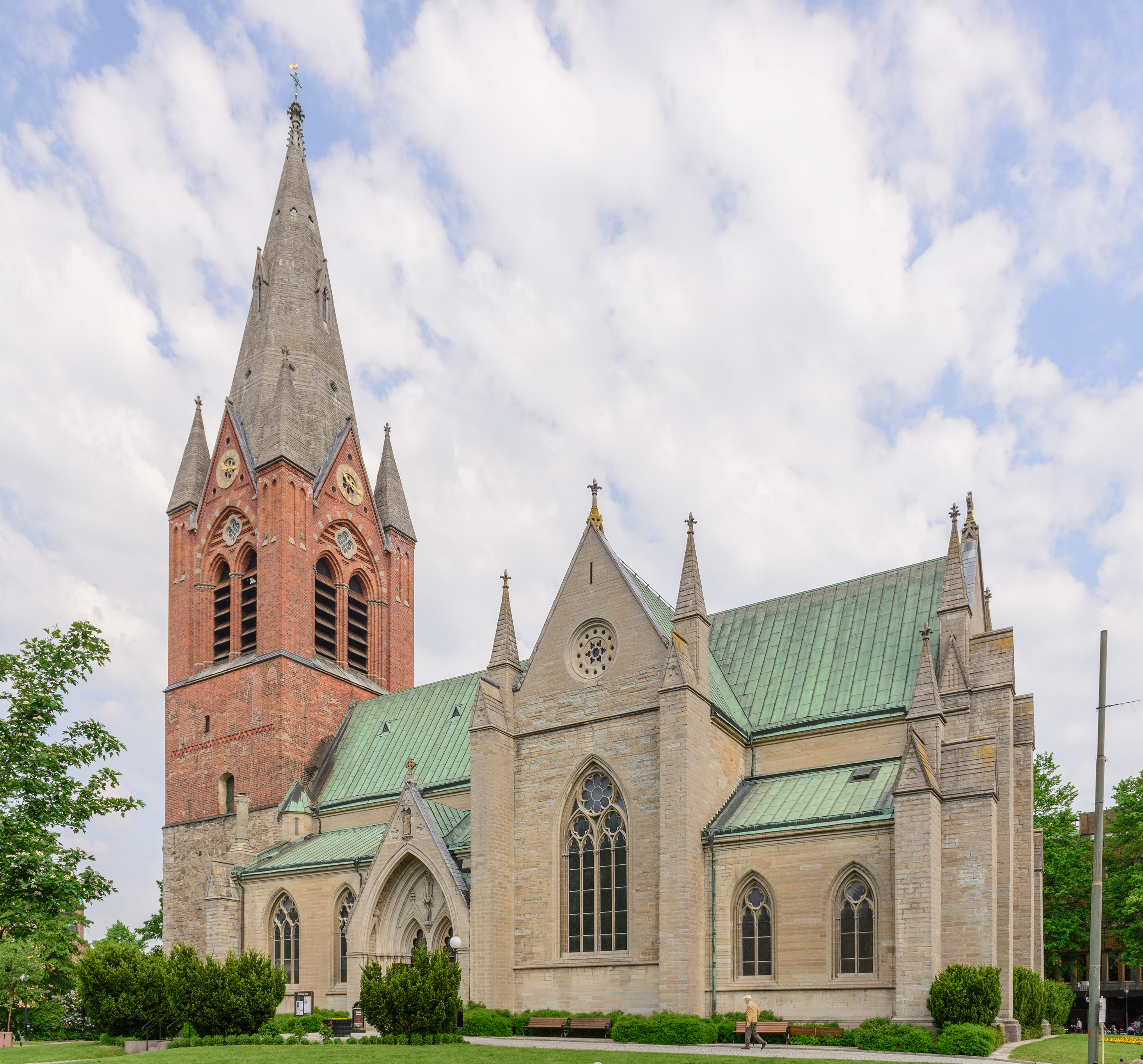 Sankt Nicolai kyrka (church), Örebro. This is a contemporary depiction of the image at This image was uploaded as part of the competition (Then and Now). English | svenska | +/−